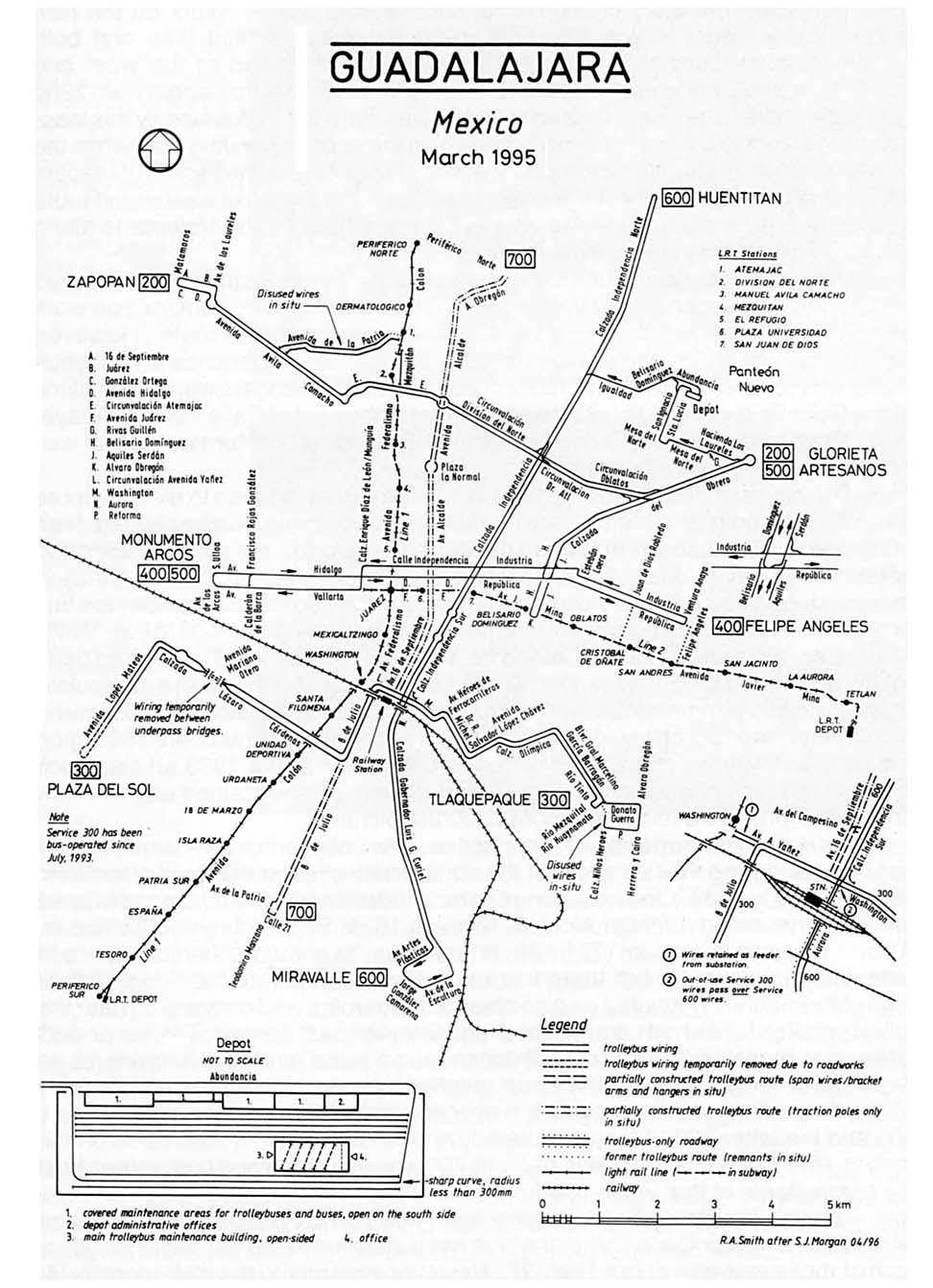 Overhead wiring map of Guadalajara's trolleybus and light rail lines in 1995, drawn by R. A. Smith and S. J. Morgan for Trolleybus Magazine